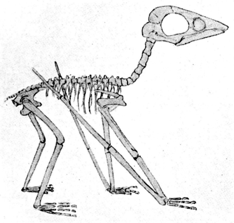 Juvenile Ctenochasma (syn. "Ptenodracon brevirostris") from Solhofen.